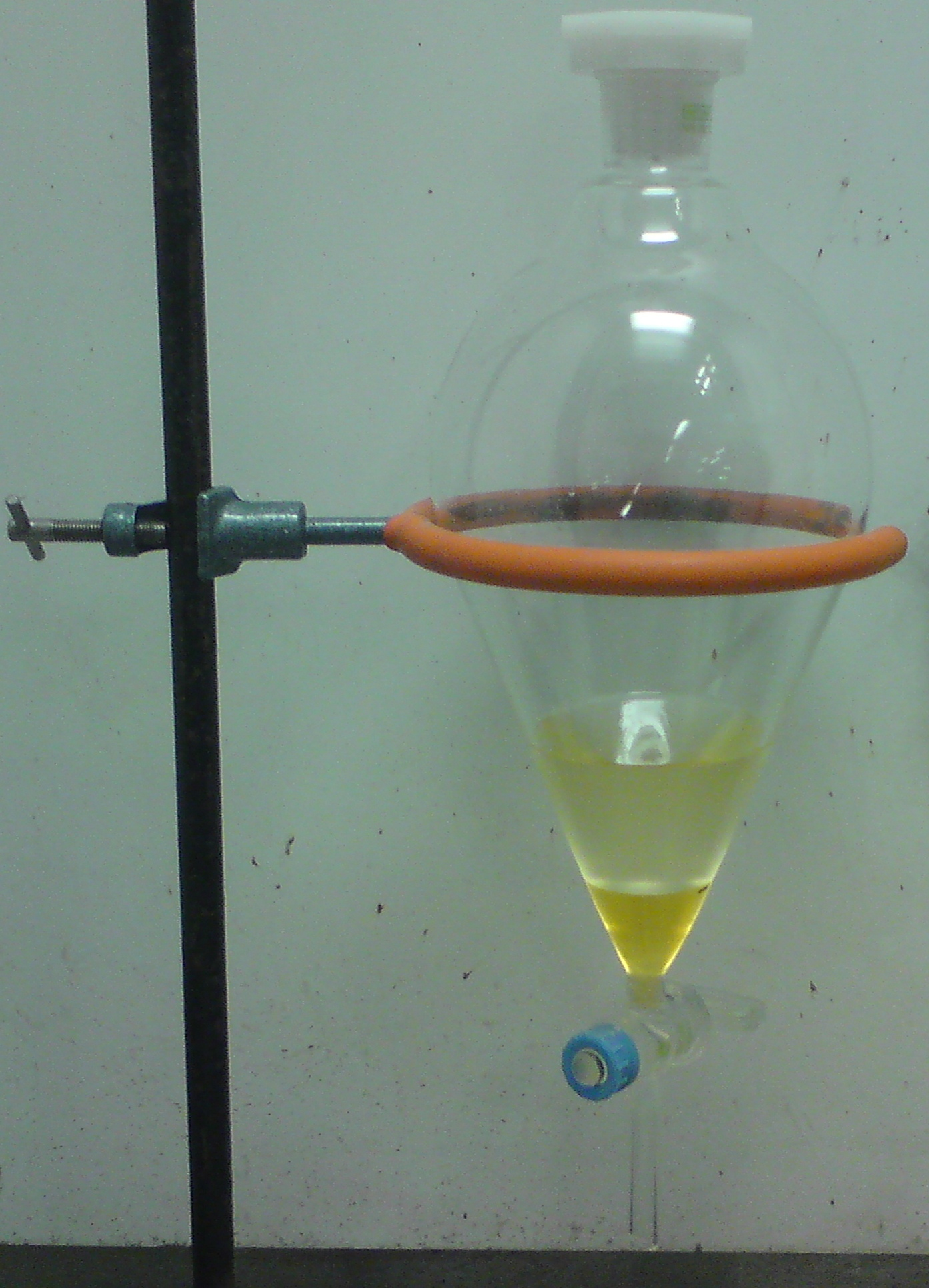 A separating funnel containing a two-layer system.